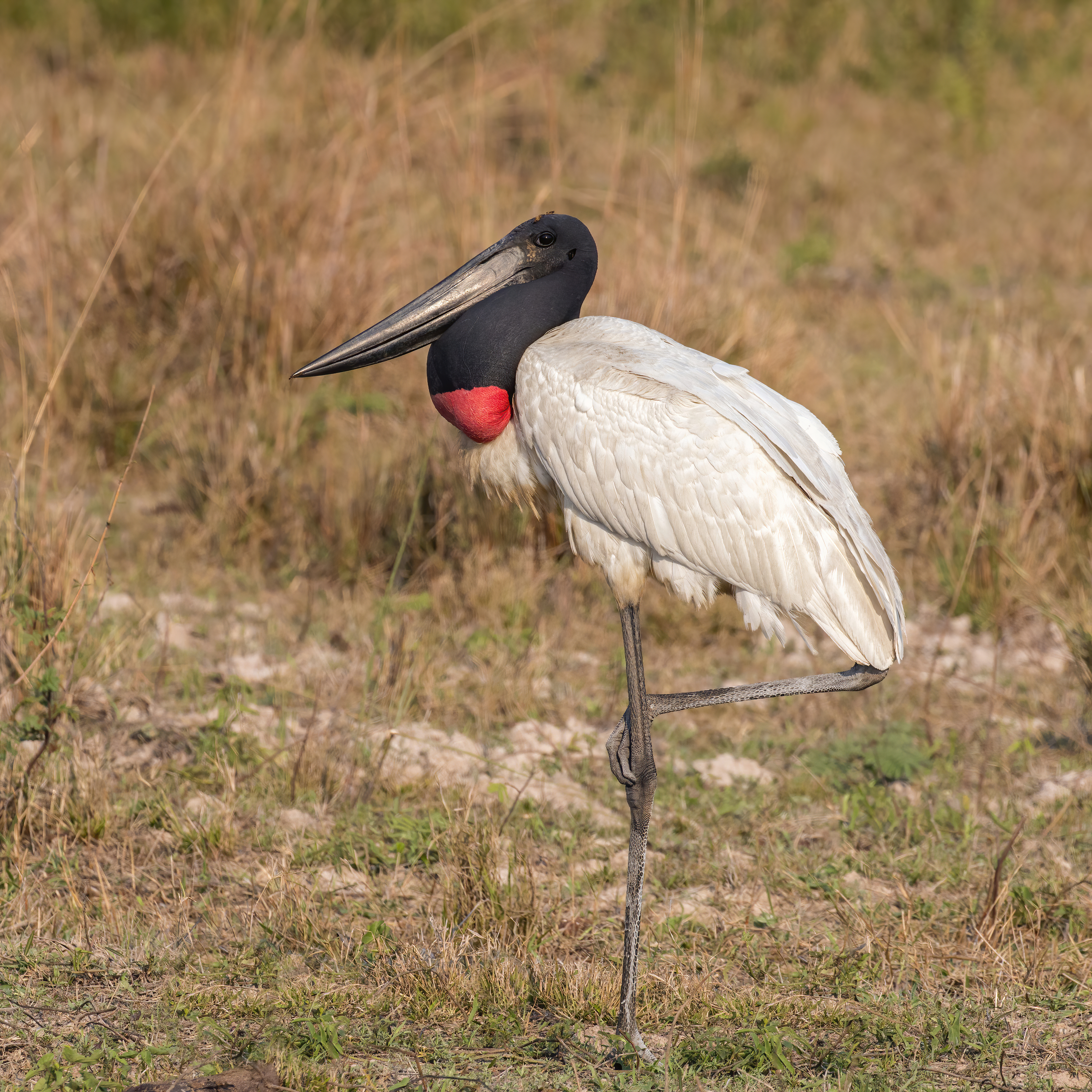 Jabiru (Jabiru mycteria), the Pantanal, Brazil